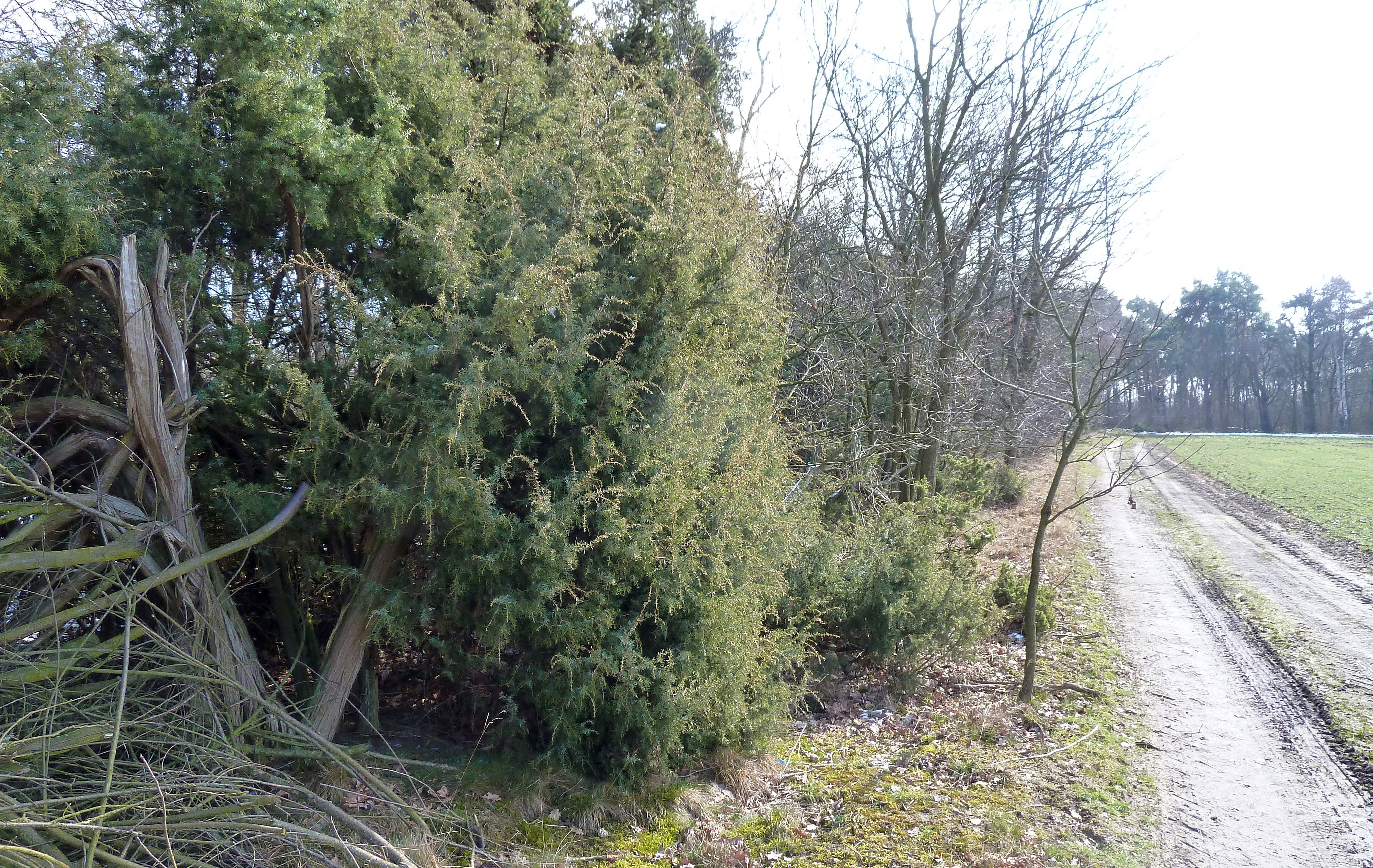 Sandy path & Juniper in Natural Reserve 'Hüttruper Heide'